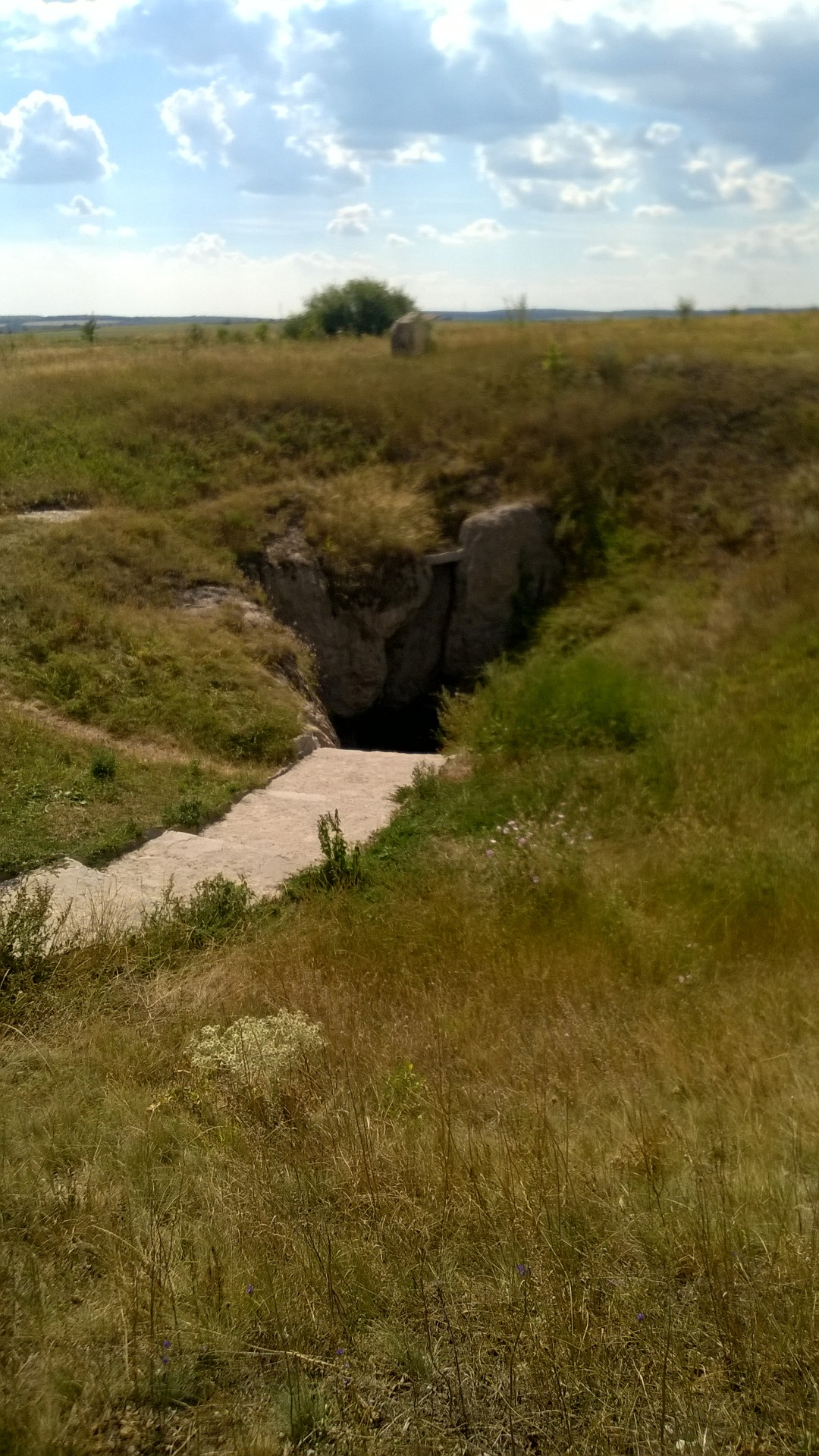 The entrance to the cave Verteba, Trypillians lived here.